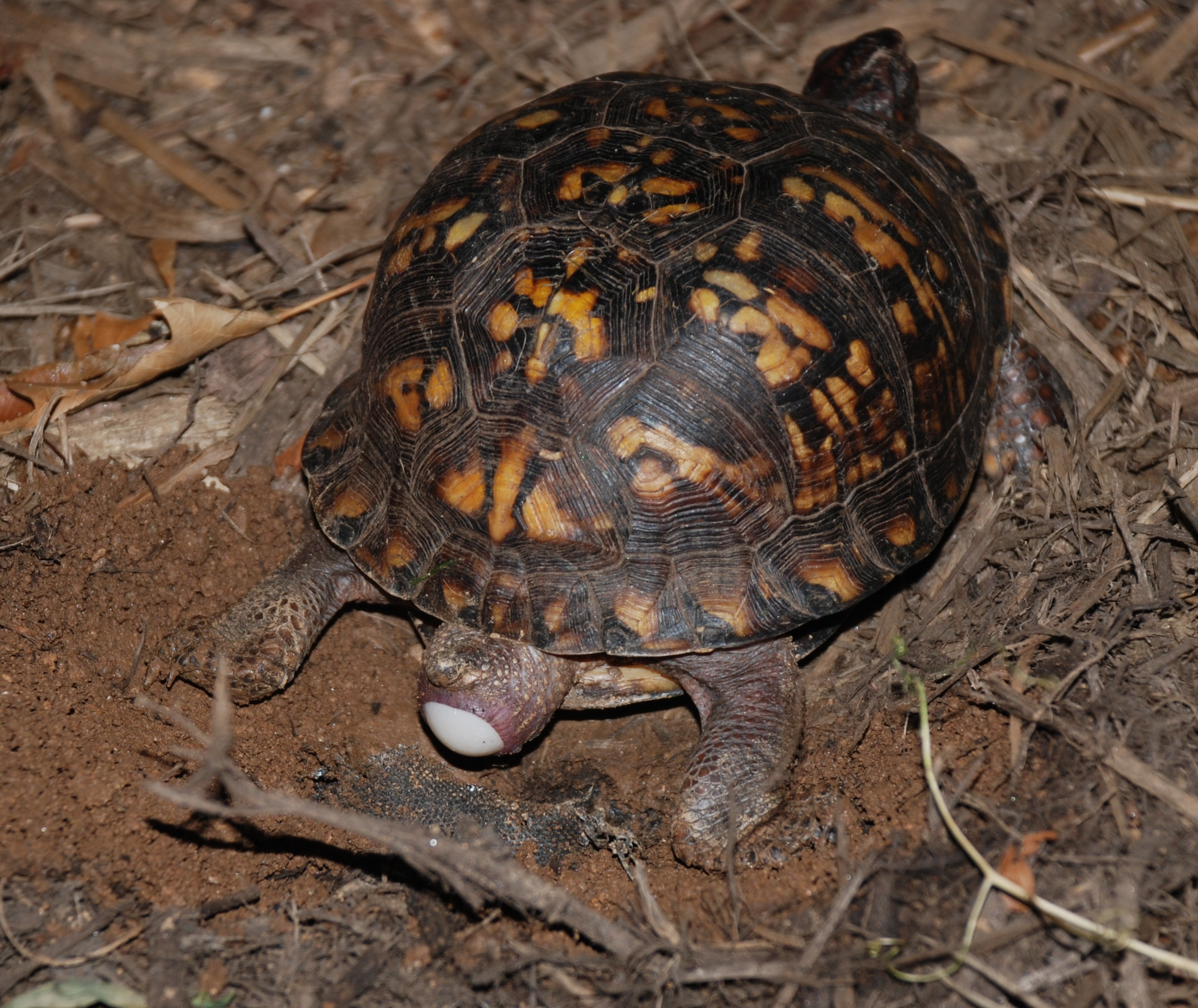 Eastern Box Turtle (Terrapene Carolina carolina) digging a hole and laying eggs in Fairfax, Virginia.